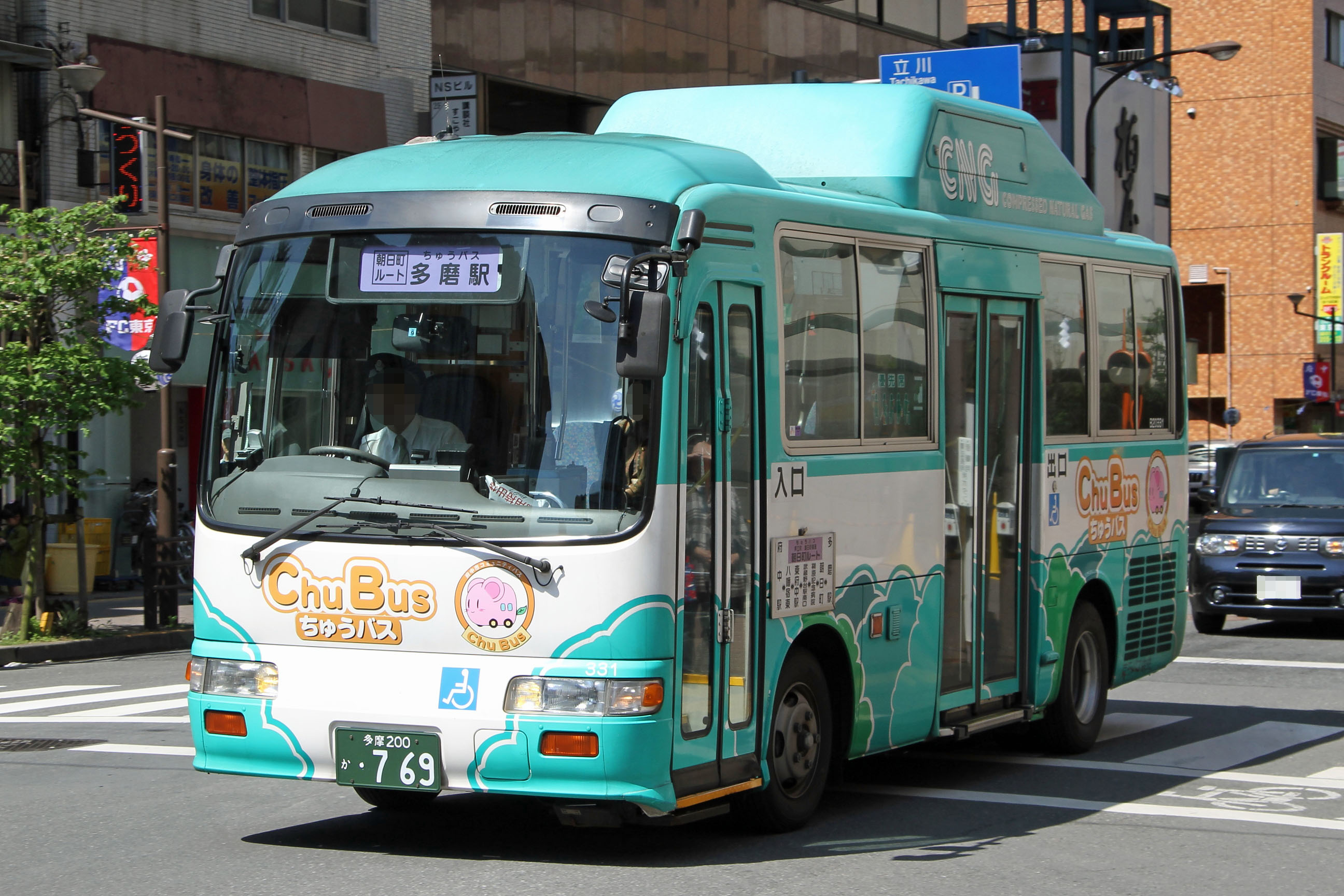 Fuchu City Community Bus "ChuBus" (CNG) 府中市のコミュニティバス「ちゅうバス」